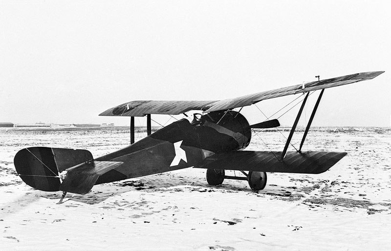 N° 11 Squadron (White Cocotte) Hanriot - Dupont HD-1 n° 44 of the Aviation Militaire Belge in a snowy landscape in 1918